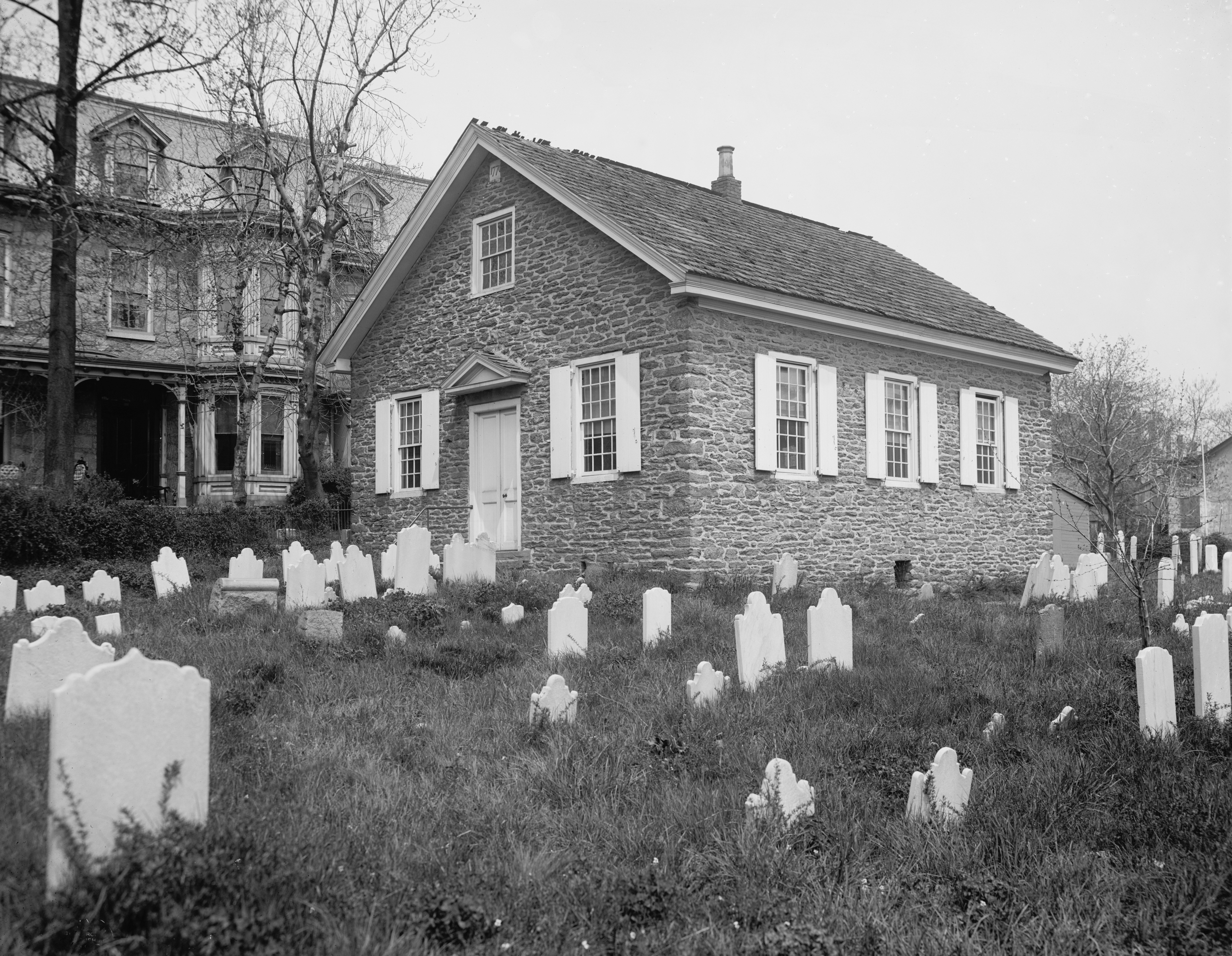 Old Mennonite Church, Germantown, Pennsylvania